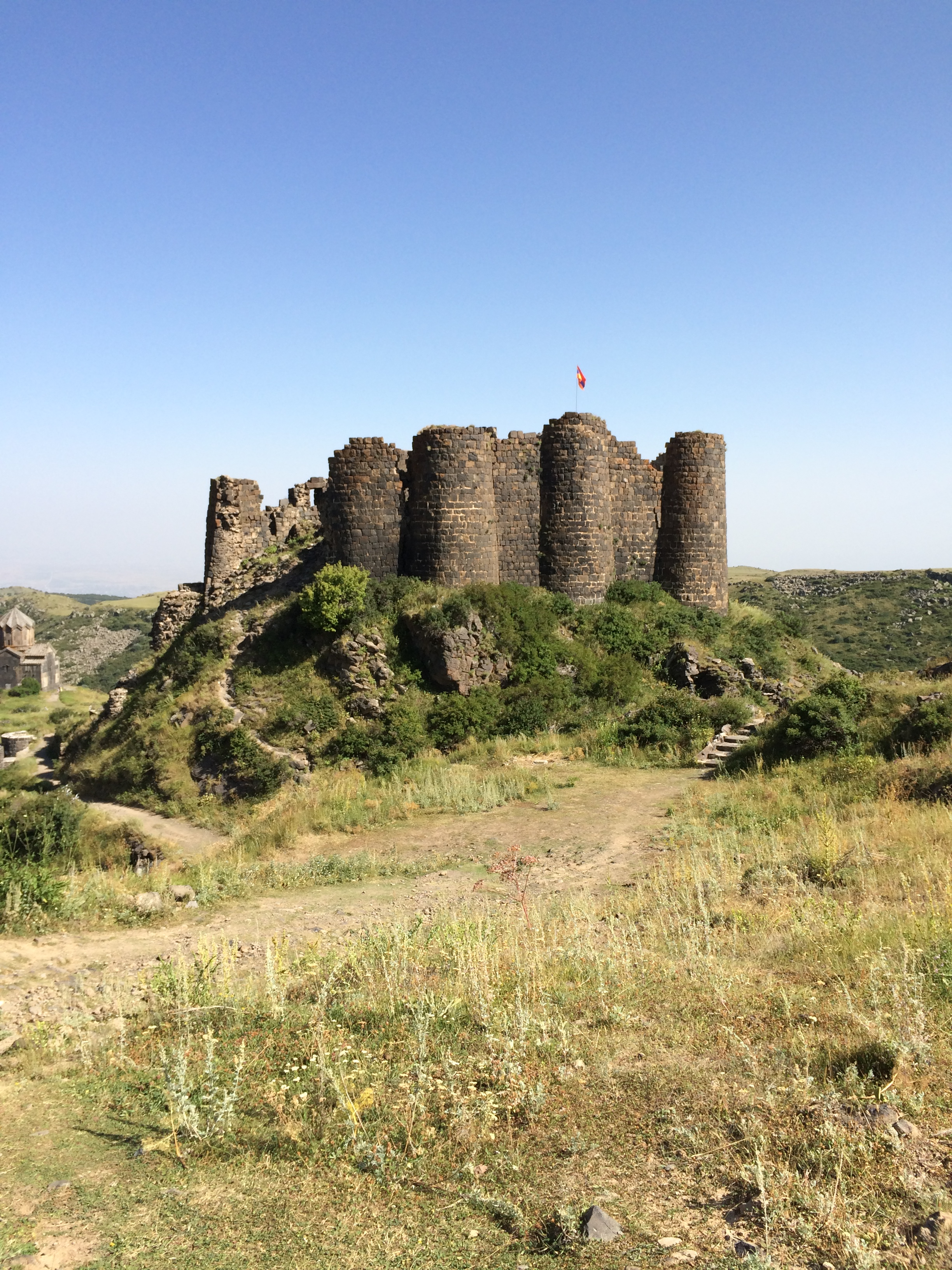 Photo of Amberd taken in July 2014 encompassing one side of the castle